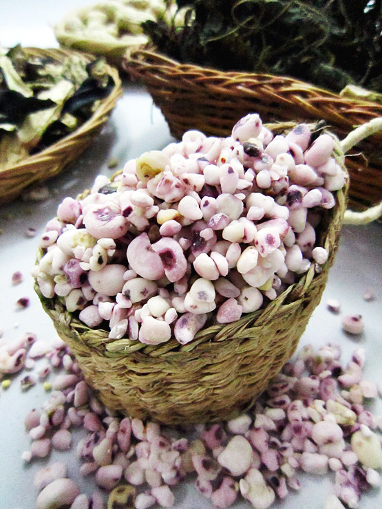 soaked waxy corn